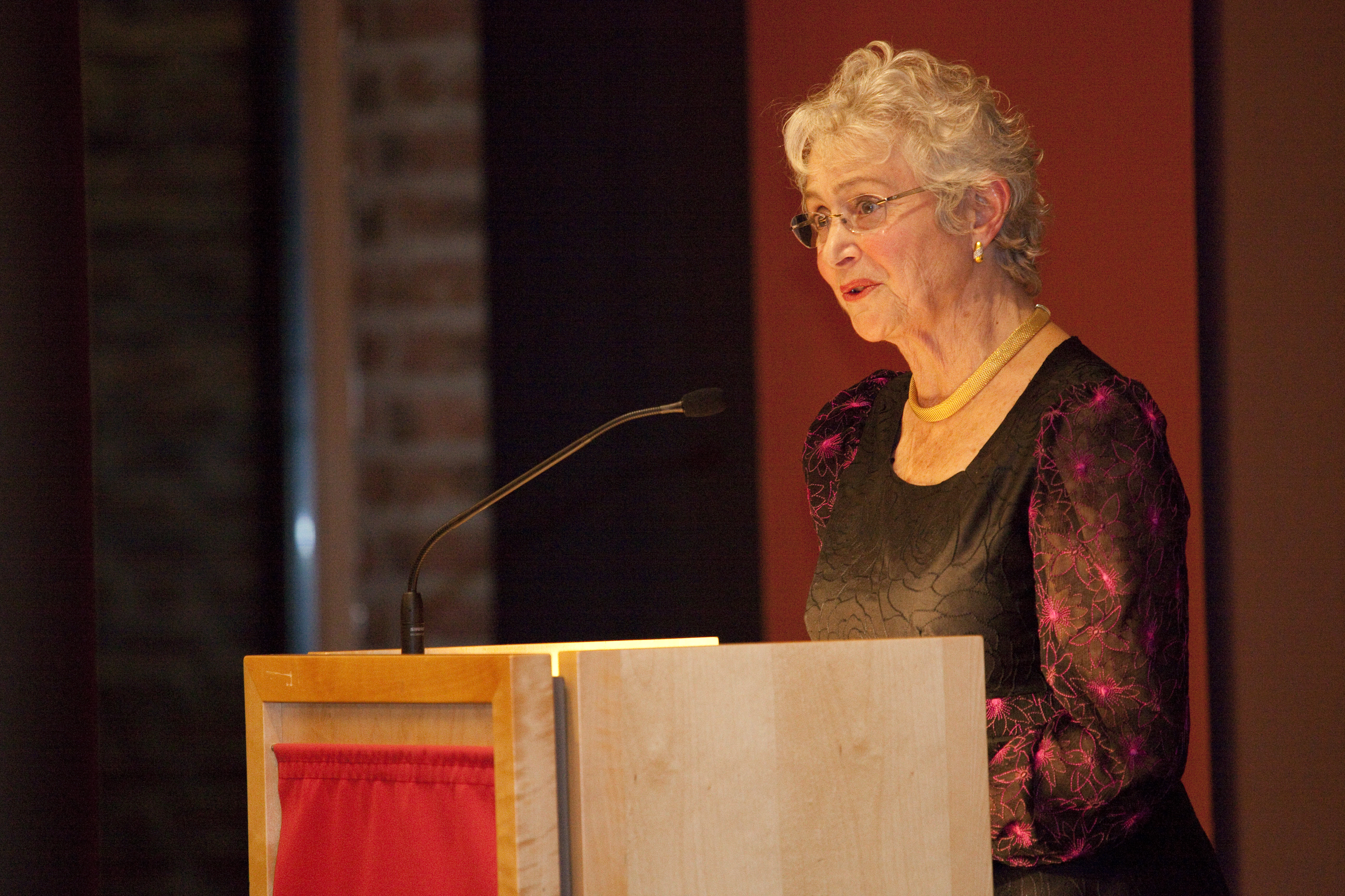 Lorna Casselton, Vice President and Foreign Secretary i The Royal Society (London) (Holdt Høytidsforedraget). Foto: Bruce Sampson / NTNU Vitenskapsmuseet.